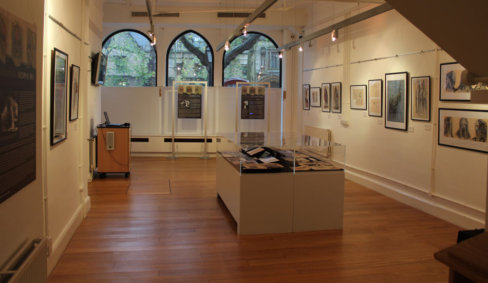 Exhibition of Abd'Elkader Farrah's designs for the production of Stravinsky's Oedipus Rex, at Sadler’s Wells theatre in 1960. Exhibition by the APGRD, at the University of Oxford's Faculty of Classics, in November 2015